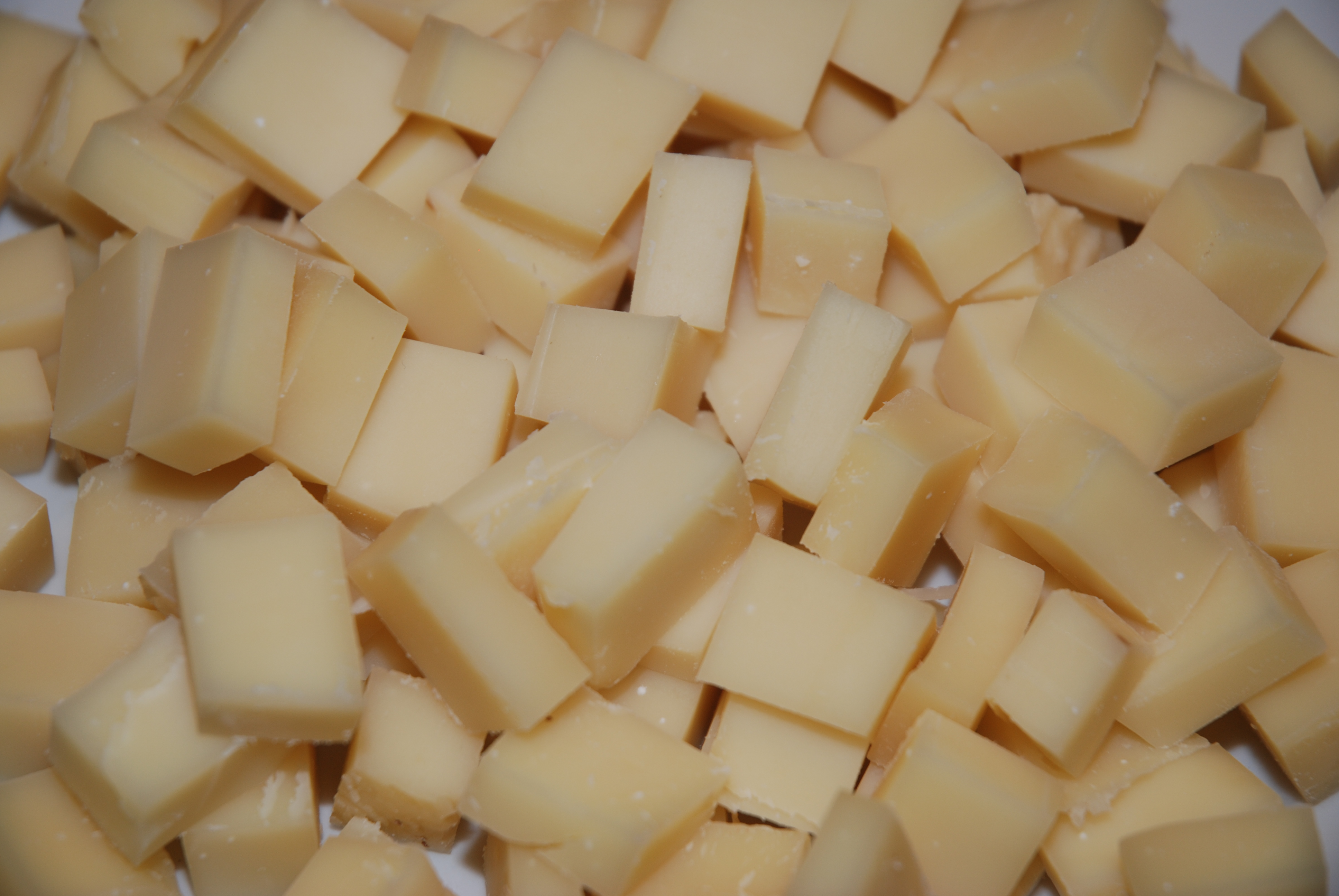 Comté cheese diced